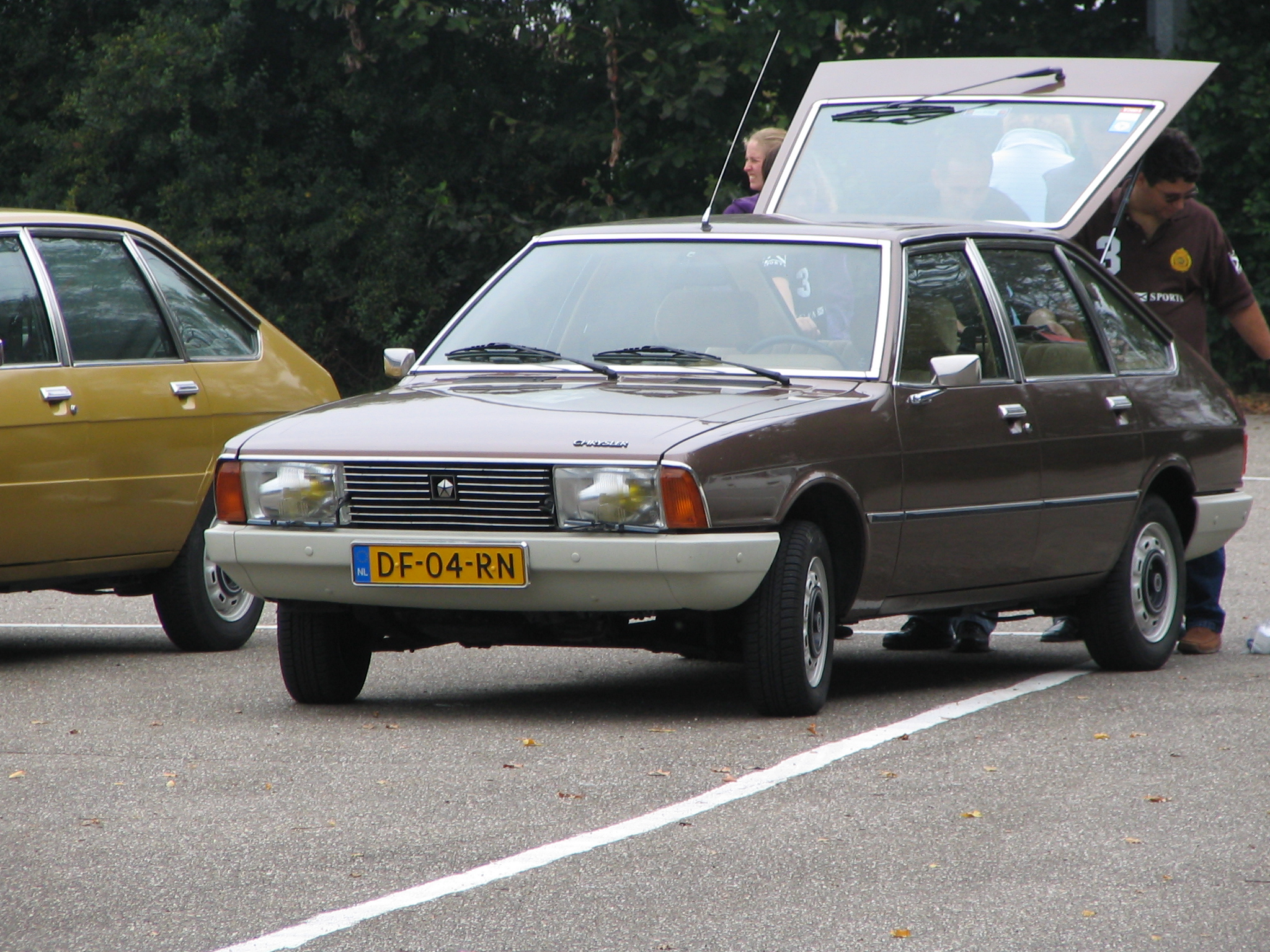 A rare example of a 1978 Chrysler-Simca 1308 GT, photo taken at a Talbot-Matra-Simca meeting in September 2005.